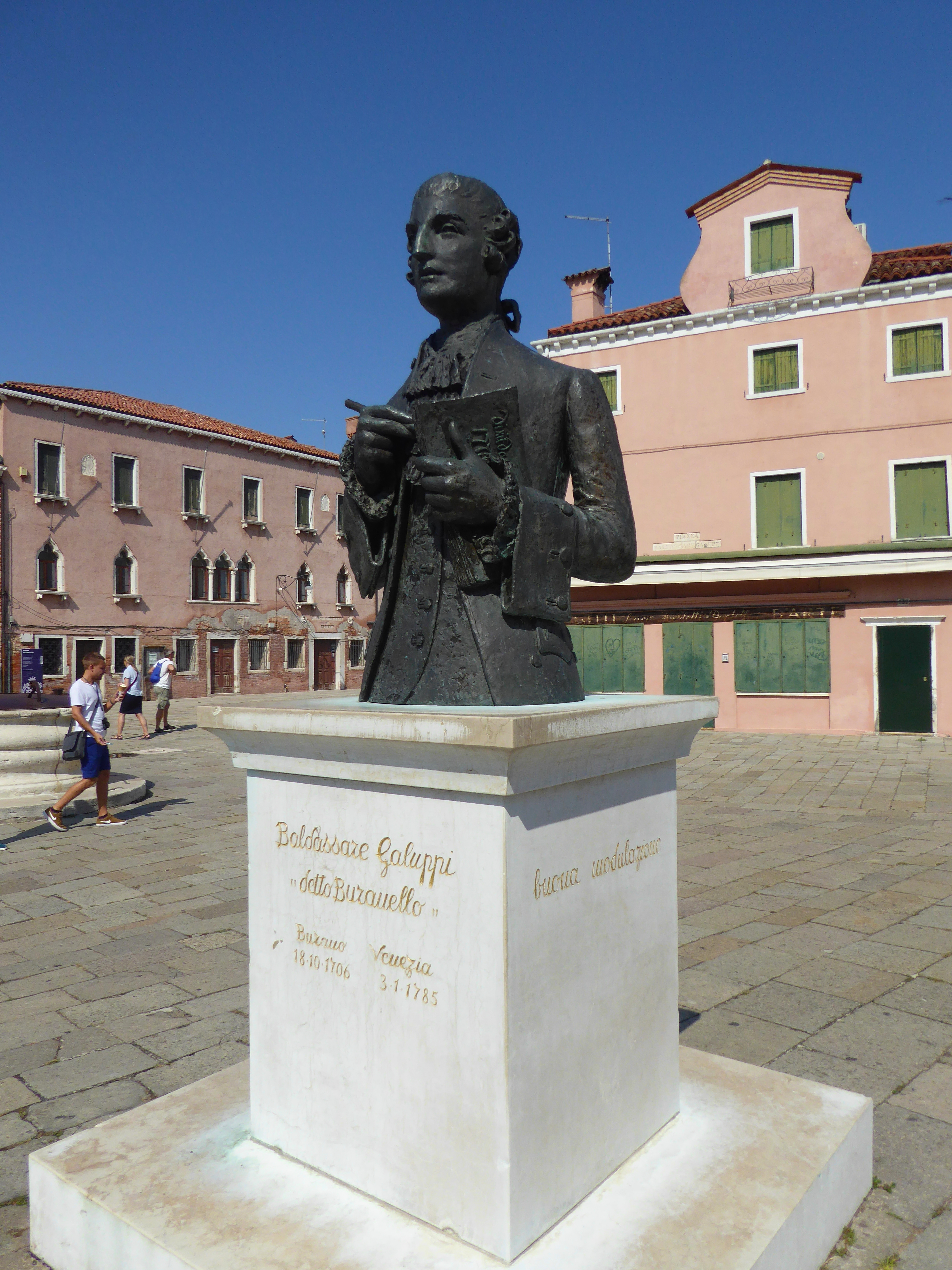 Bust of the composer Baldassare Galuppi in Piazza Galuppi, Burano.